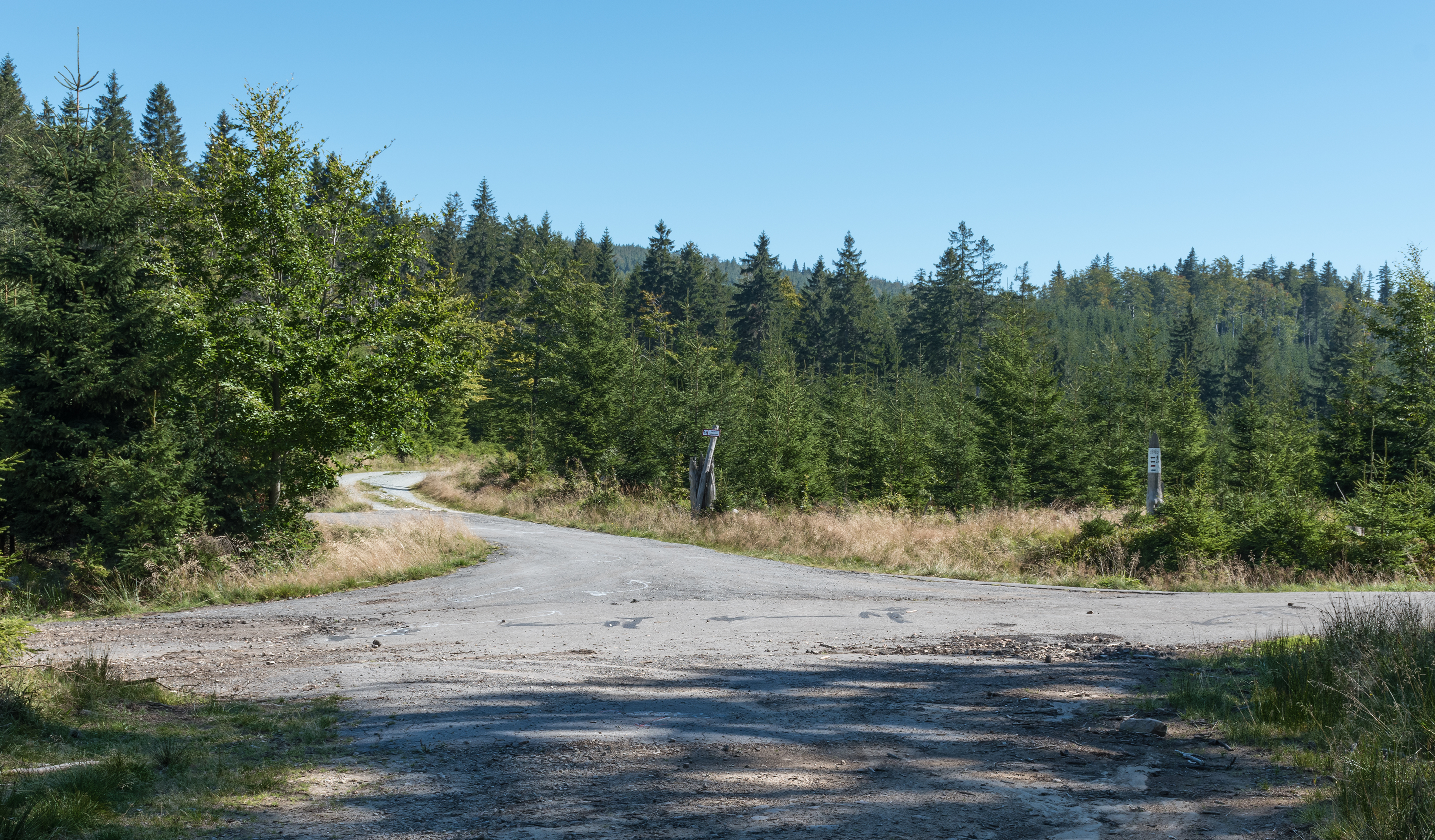 Wielkie Rozdroże, Bialskie Mountains, Sudetes